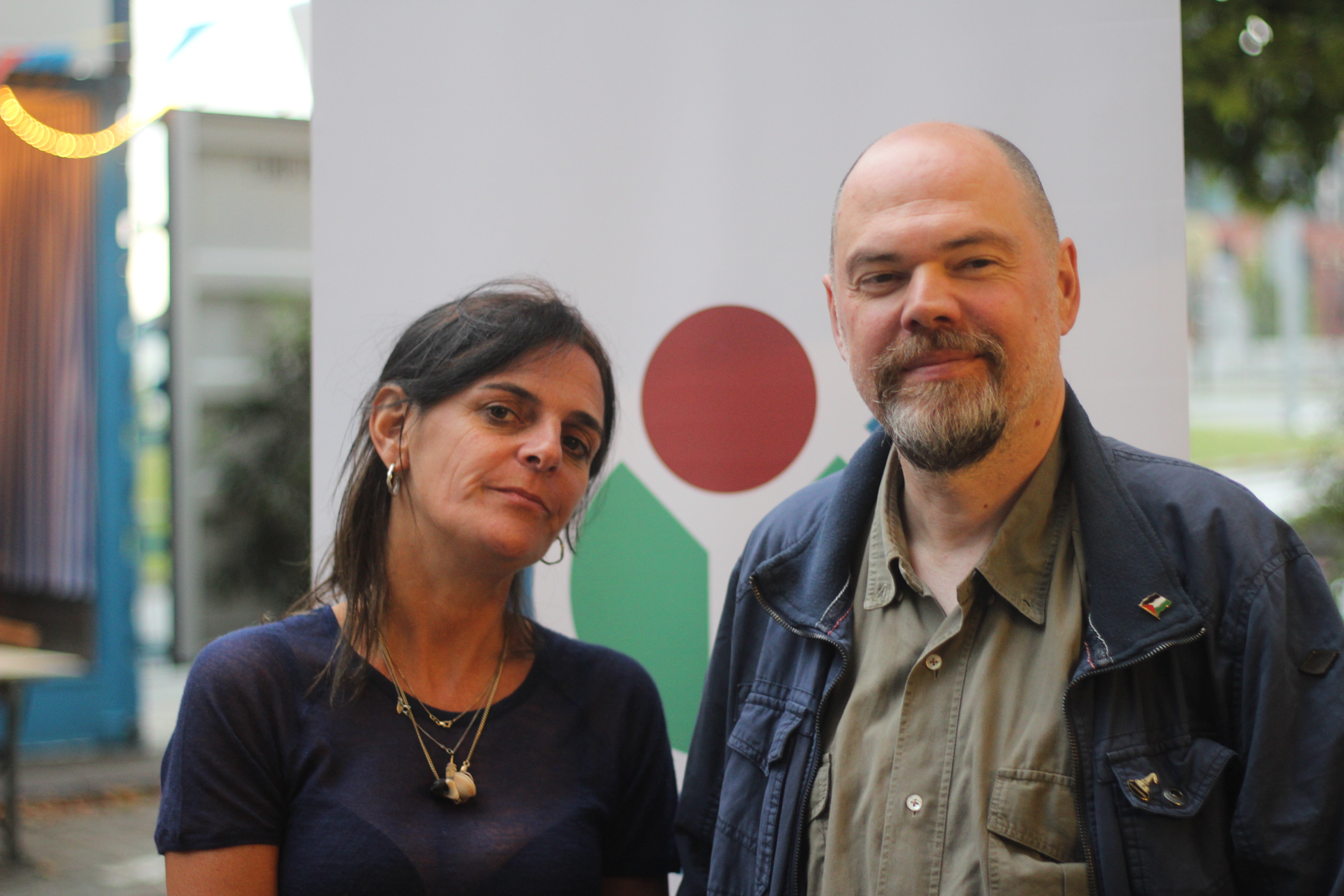 Jolente De Keersmaeker and Frank Vercruyssen of theatre company STAN at the Theaterfestival 2017 in the Kaaitheater.